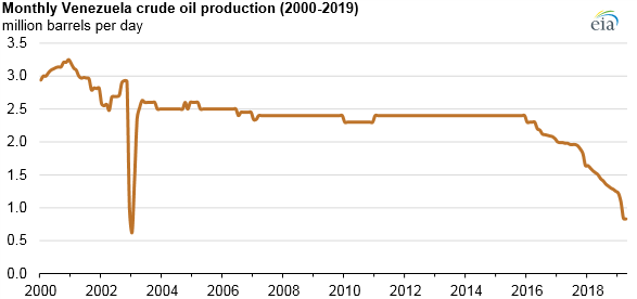 In April 2019, Venezuela's crude oil production averaged 830,000 barrels per day (b/d), down from 1.2 million b/d at the beginning of the year, according to EIA’s May 2019 Short-Term Energy Outlook. May 20, 2019